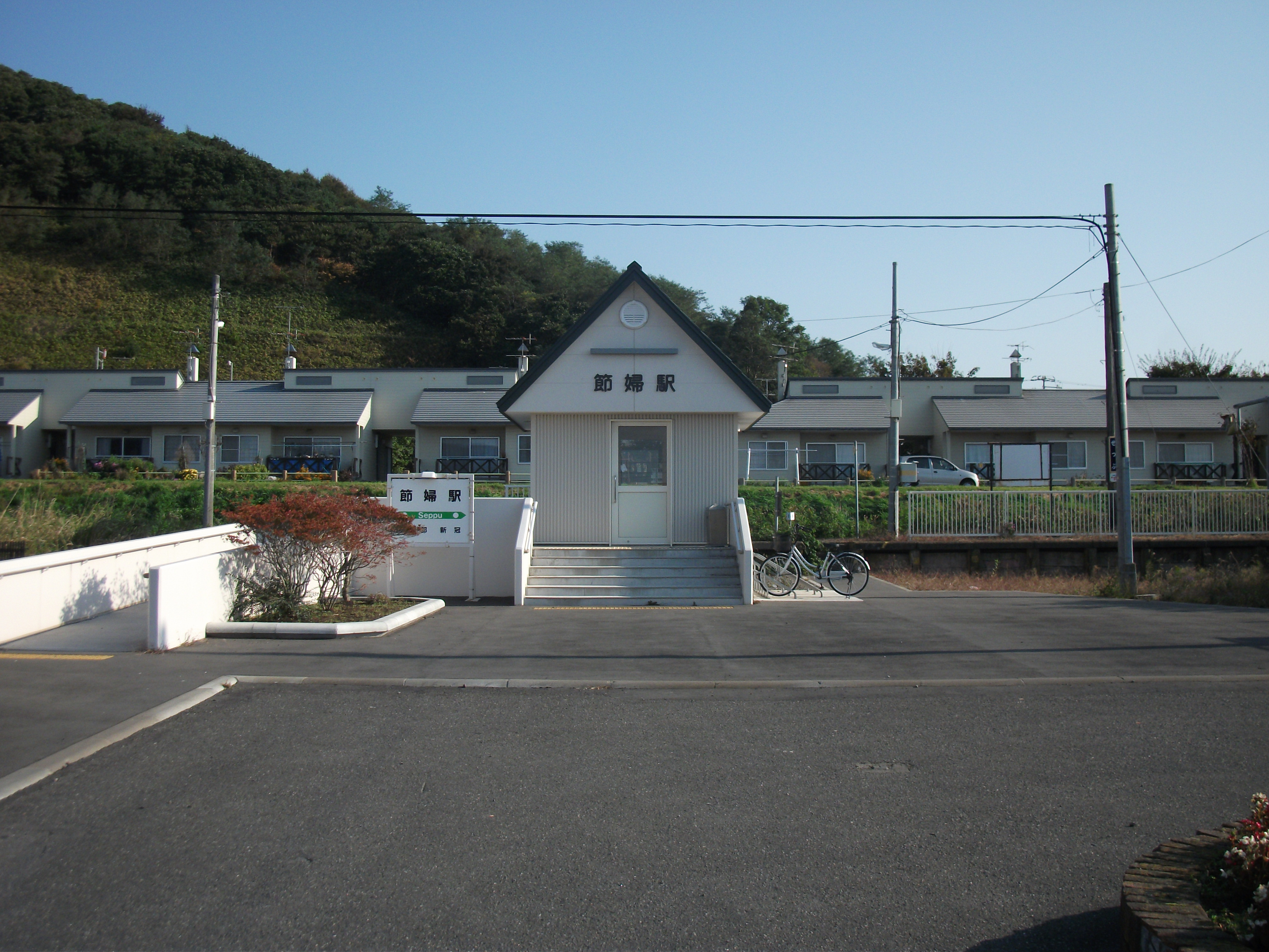 Seppu Station on Hidaka Main Line